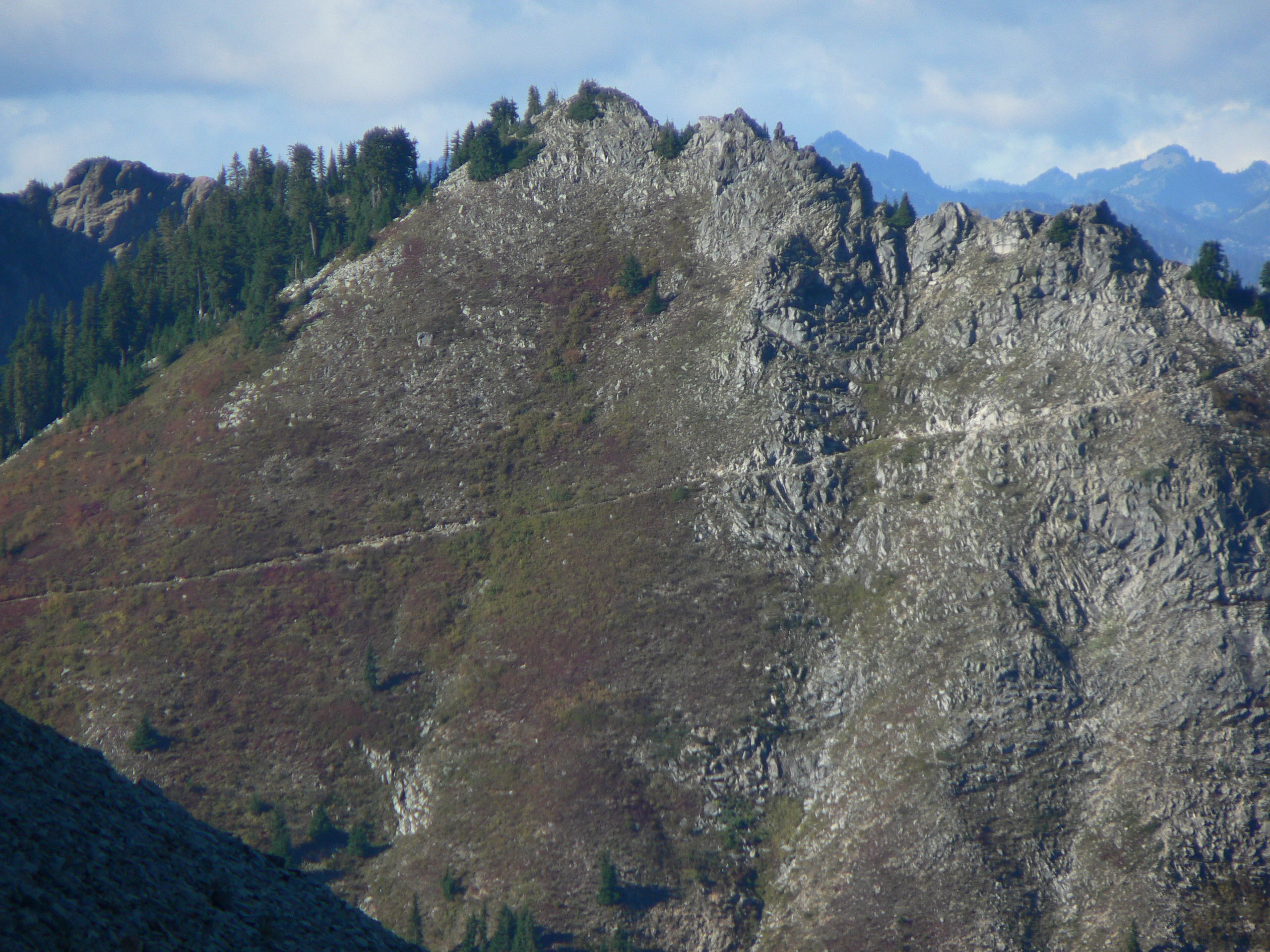 Alaska Mountain 5745 feet, Pacific Crest Trail